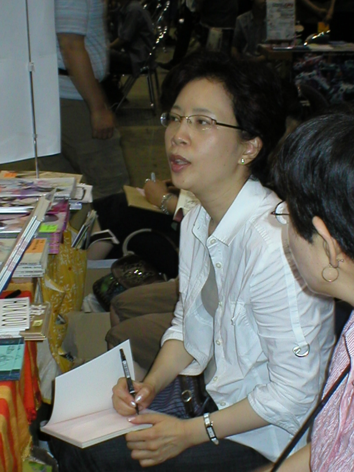 Ryo Azumi at Comic Market 74, August 2008.